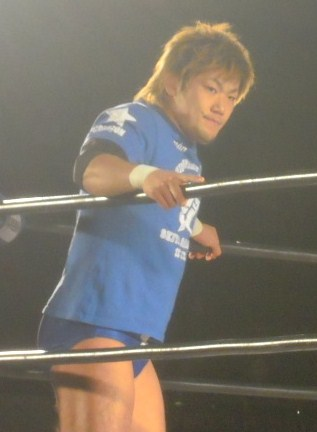 Japanese professional wrestler,Seiya Sanada.BJW Dec 18 2011 Yokohama Cultural Gymnasium.